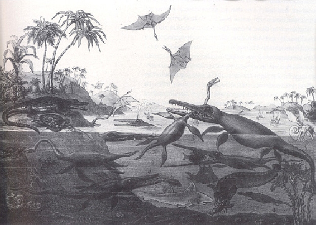 Lithographic print produced in 1830 by Georg Scharf (1788 – 1860) from Henry De la Beche's (1796 – 1855) Duria Antiquior wator color.